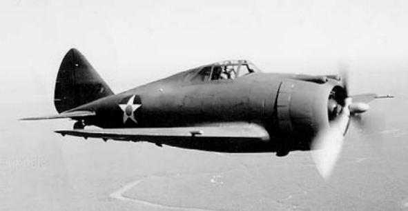 A Republic P-43 Lancer in flight over Esler Field, Louisiana (USA), on 9 March 1942.